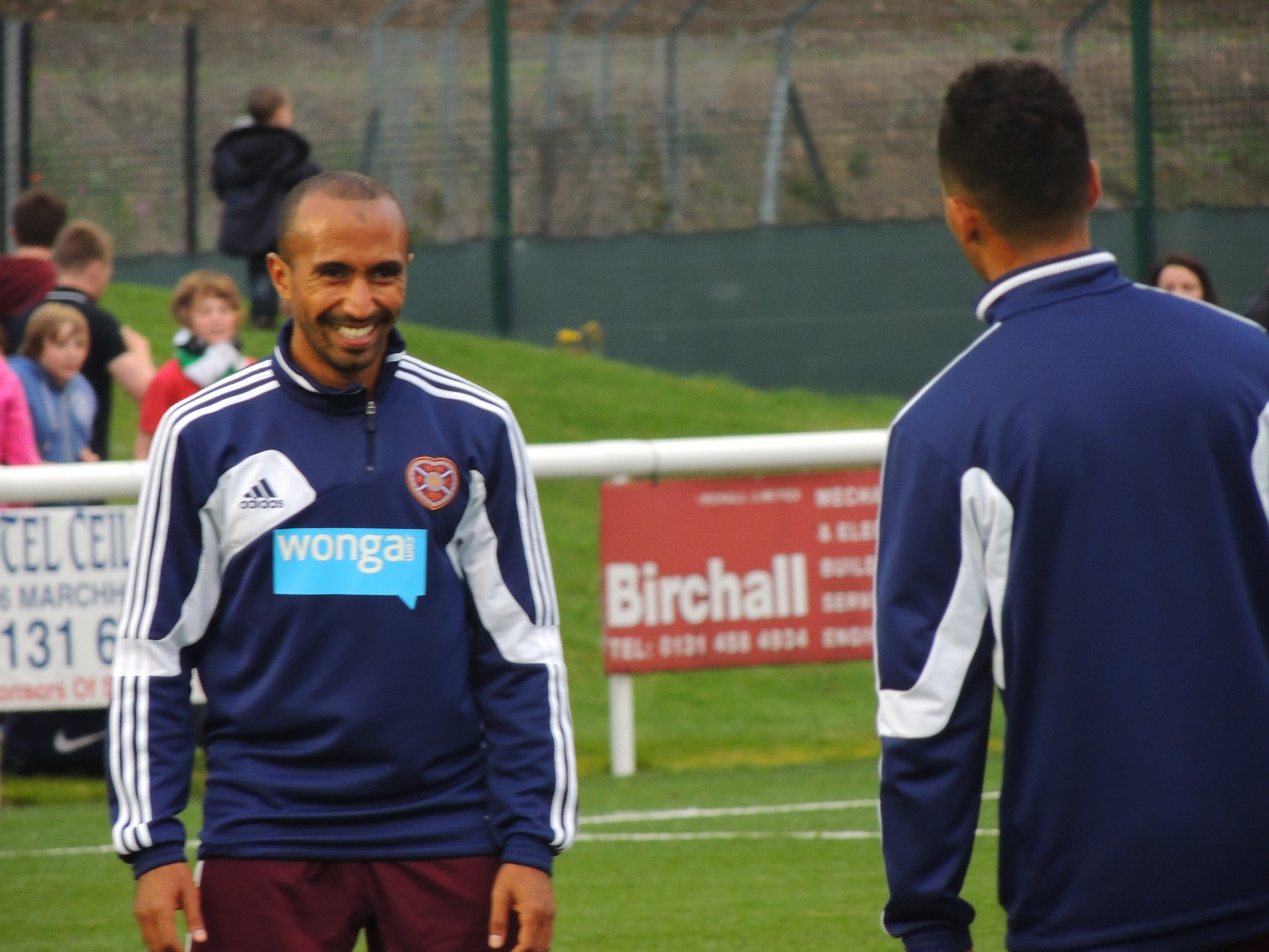 Mehdi Taouil warming up before game against Spartans